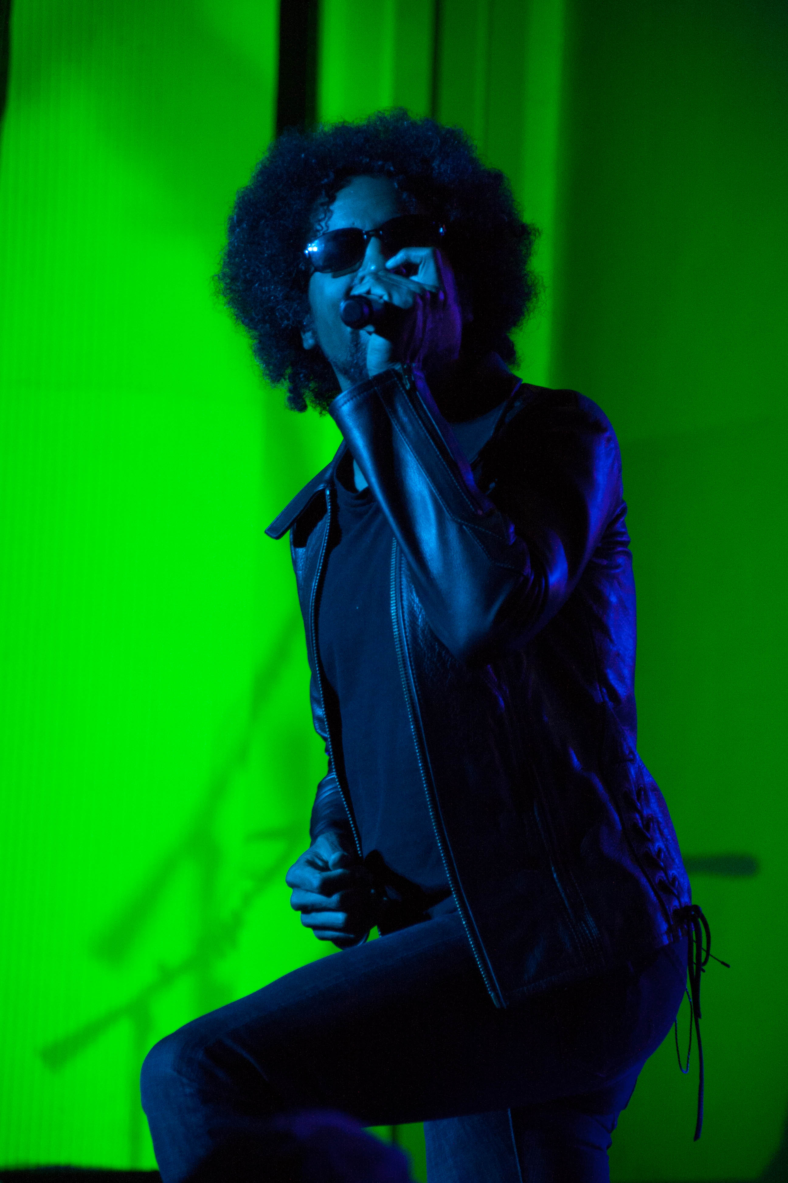 William DuVall at Uproar Festival, 2013